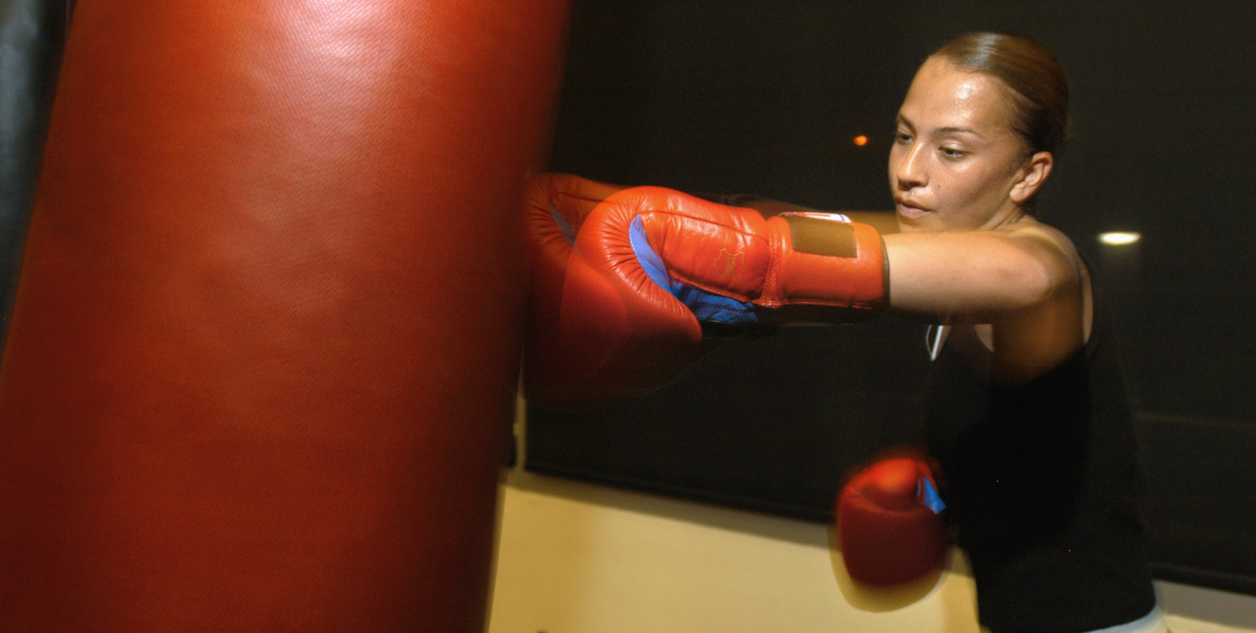 Lance Cpl. Fabiola Escobedo throws combination punches at a heavy bag at The Boxing Club about a mile away from the depot.